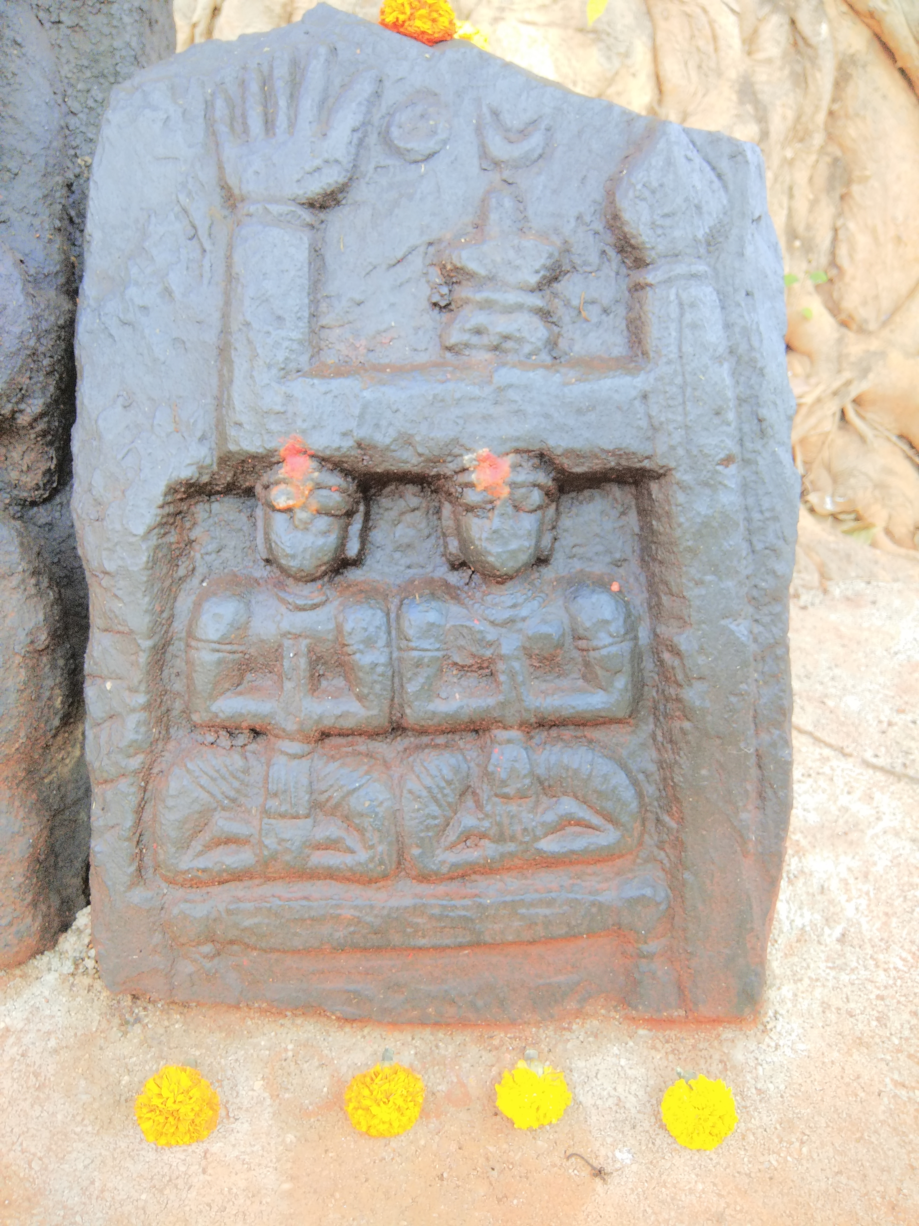 Historical stone of Maharashtra